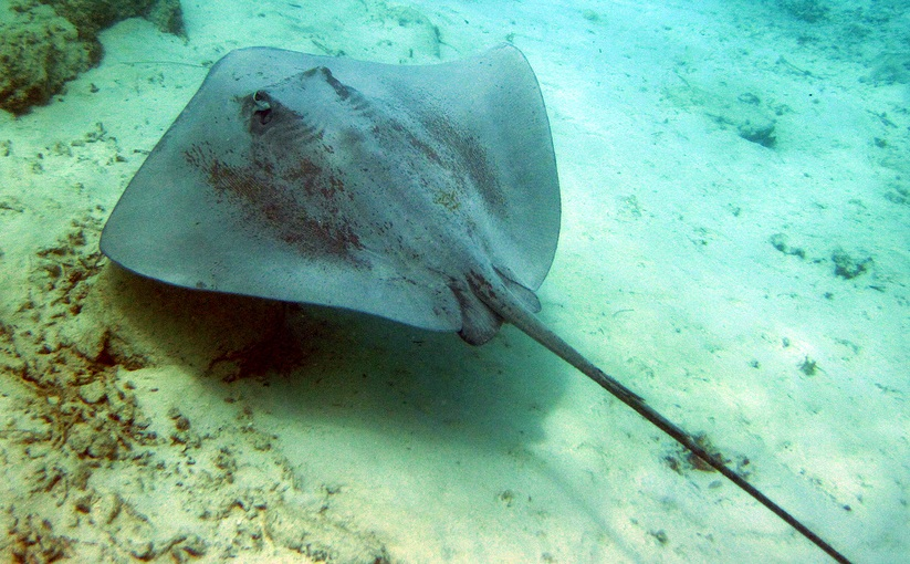 Pink whipray (Himantura fai) at Moorea, French Polynesia